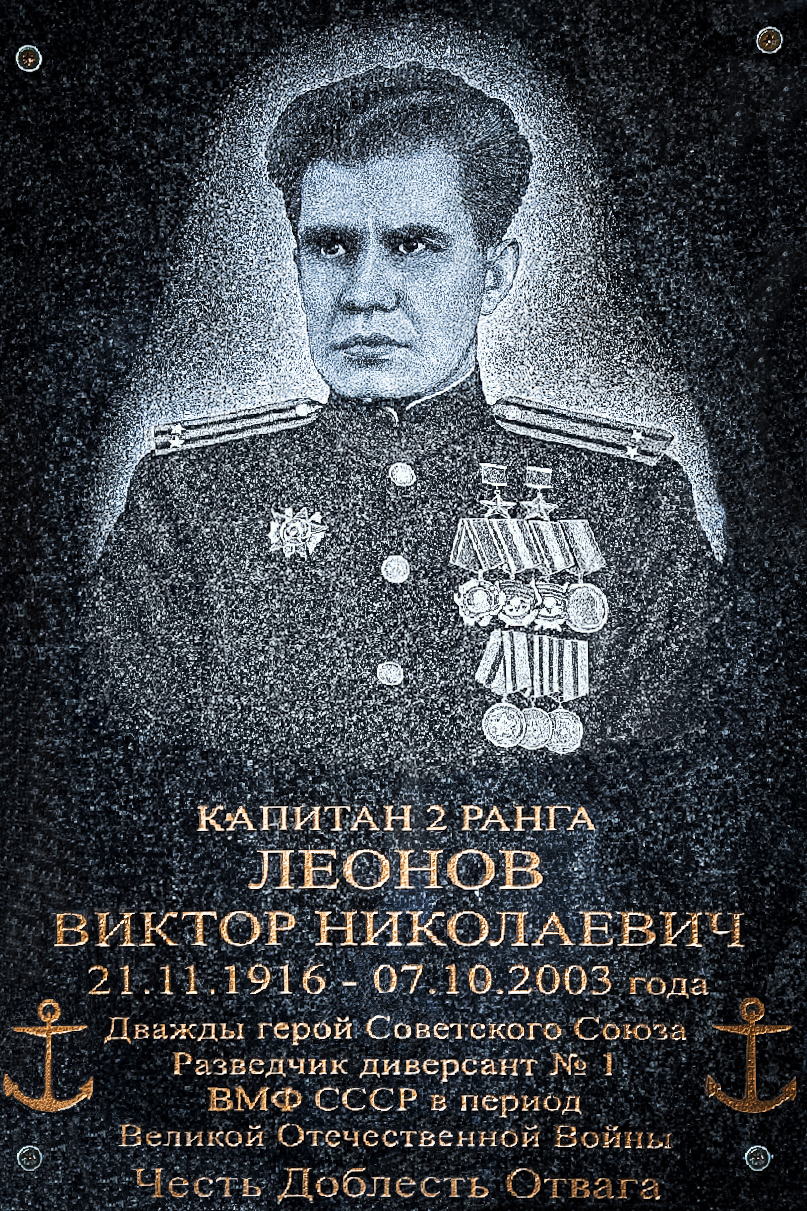 В 2018 году на фасаде Резиденции русского путешественника Фёдора Конюхова, в Москве, «Союзом Военных Моряков» была установлена мемориальная доска в честь легендарного разведчика-диверсанта ВМФ СССР - Виктора Николаевича Леонова.